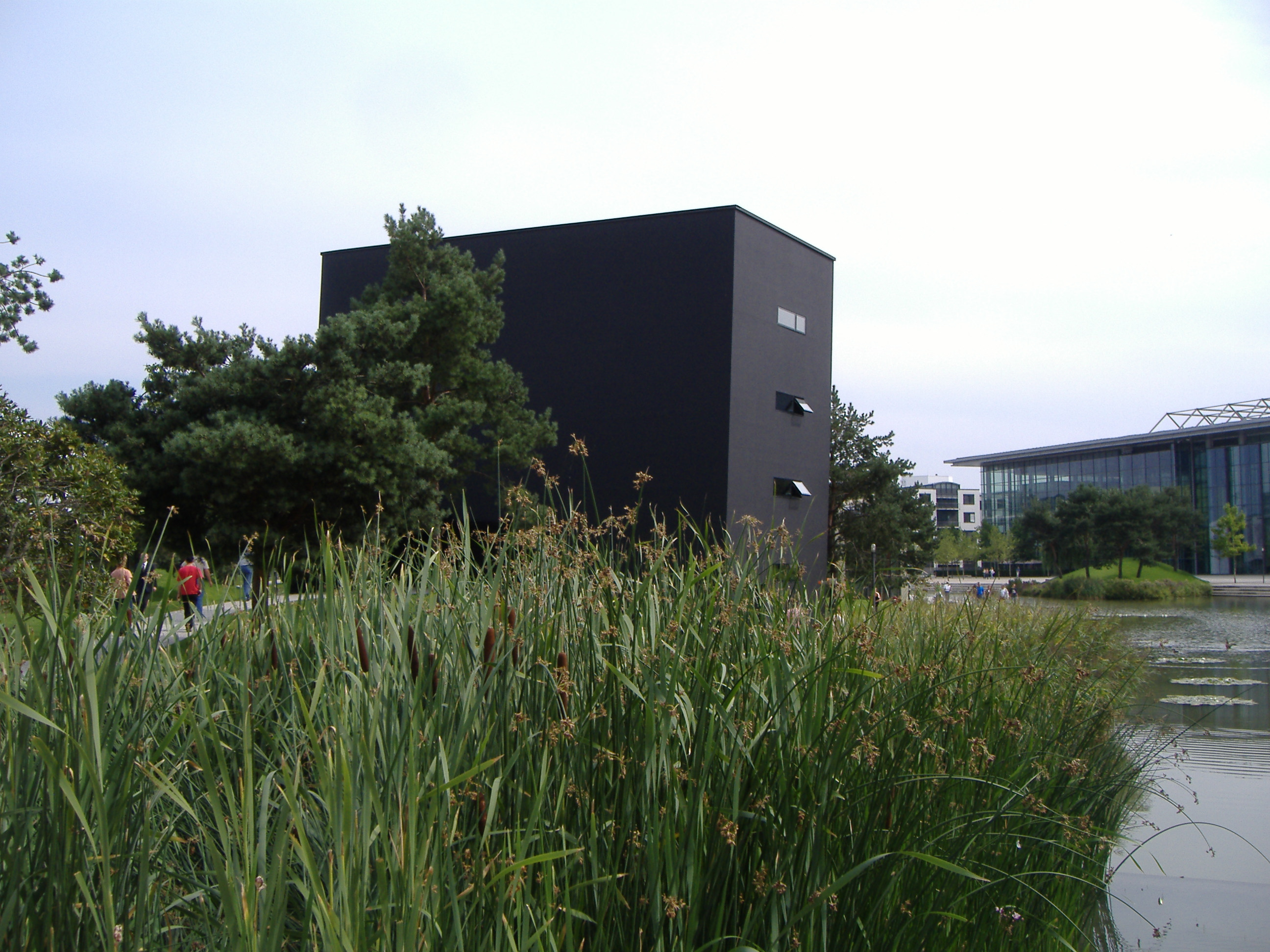 Created by Erebus555. This is an image of the Lamborghini pavilion at the Autostadt.